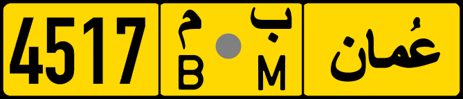 License plate from Oman for private vehicles